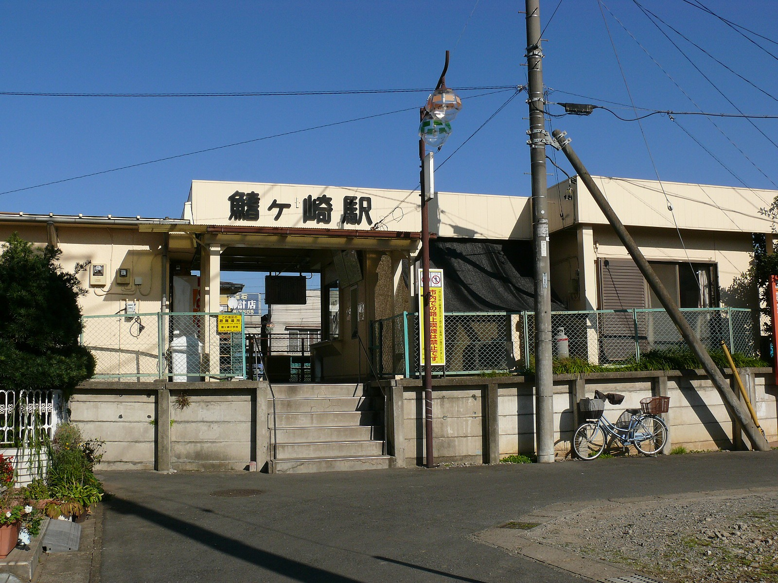 Ryutetu Railway Nagareyama line Hiregasaki Station west exit(Japan,Tiba prefecture,Nagareyama city).